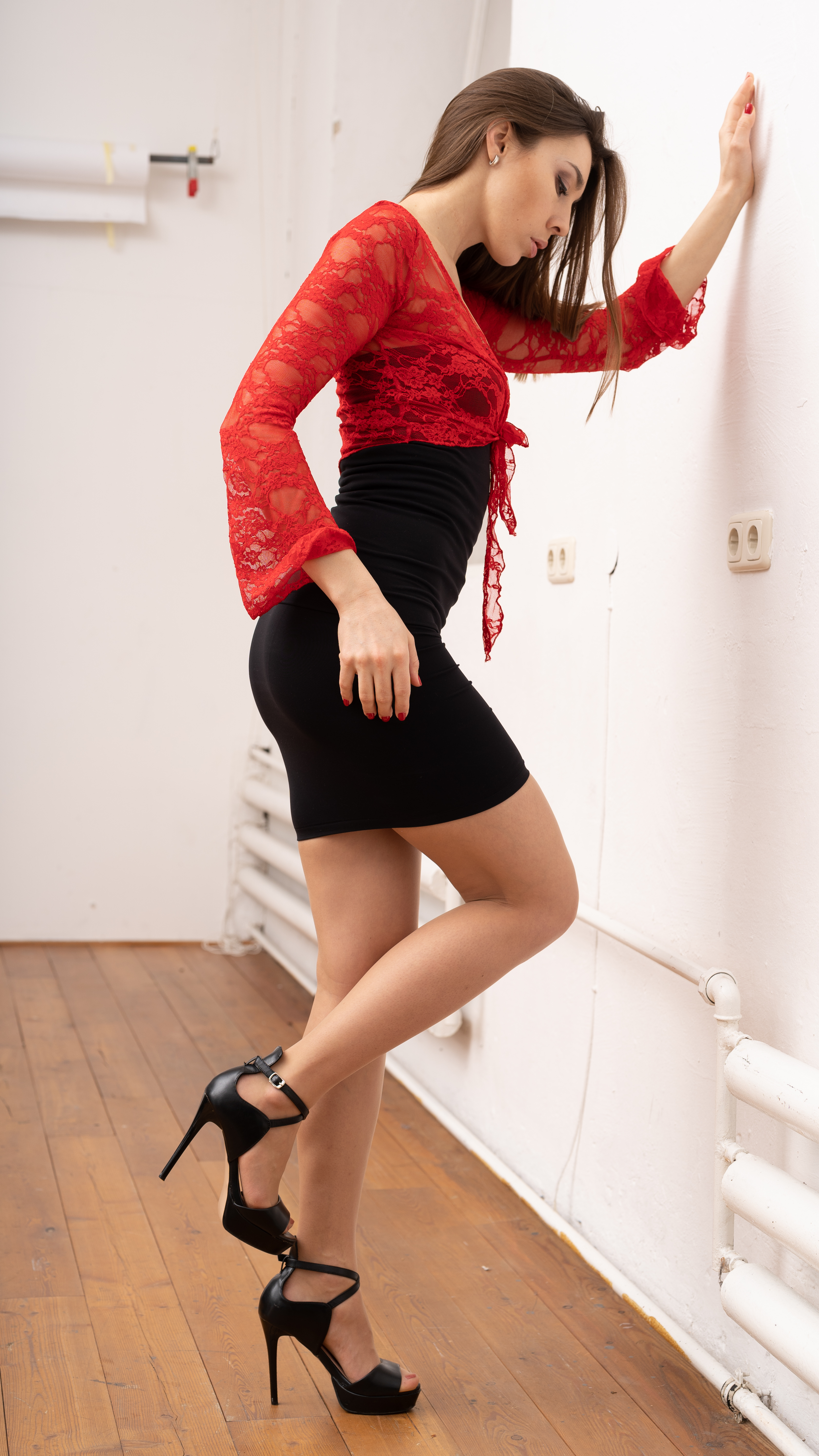 Wolford Fatal dress in black over Kunert Beauty 7 tights in the colour candy with a red lace shrug.